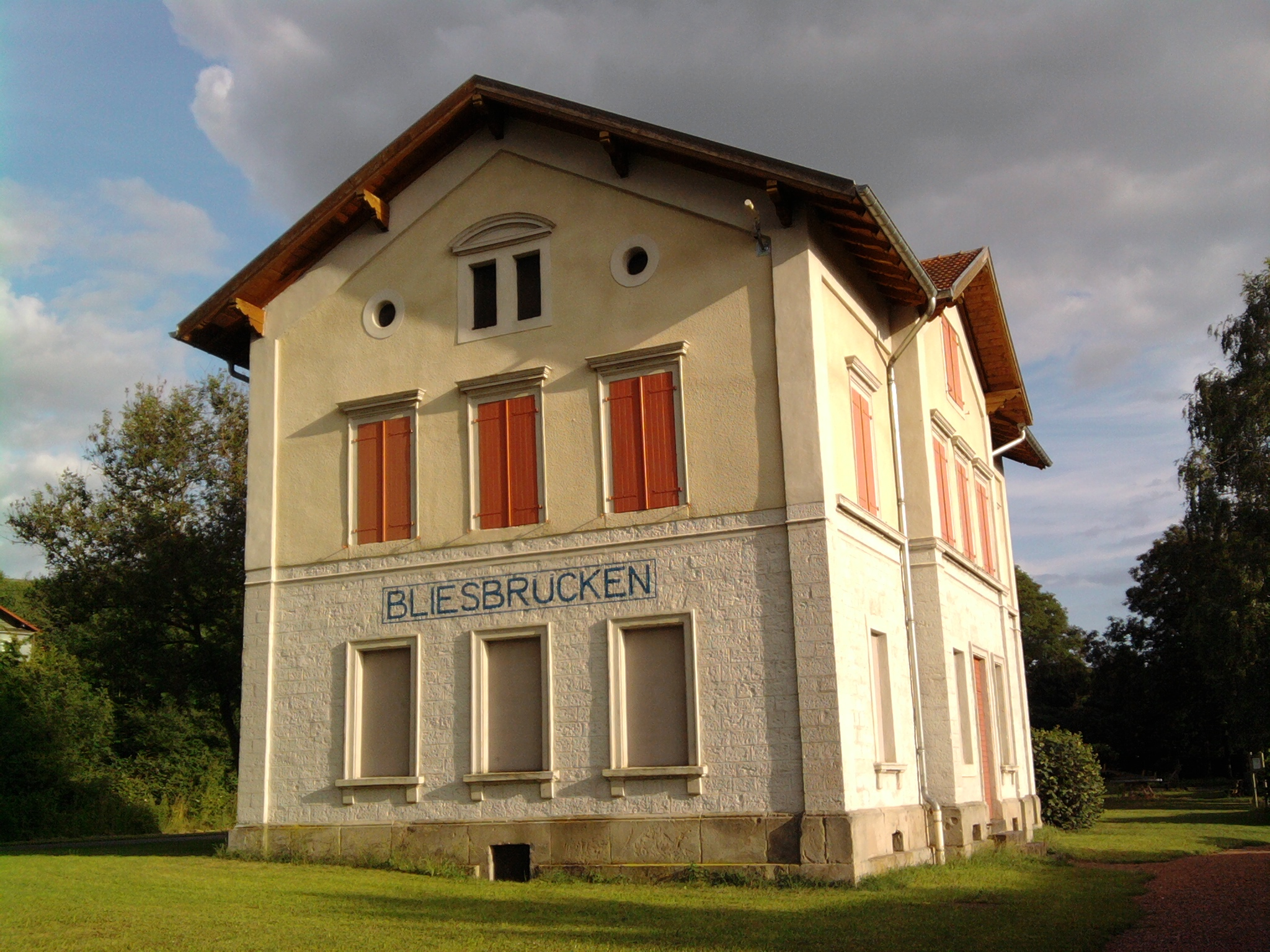 Old train station of Bliesbruck, village in Moselle (France), XIXth century.